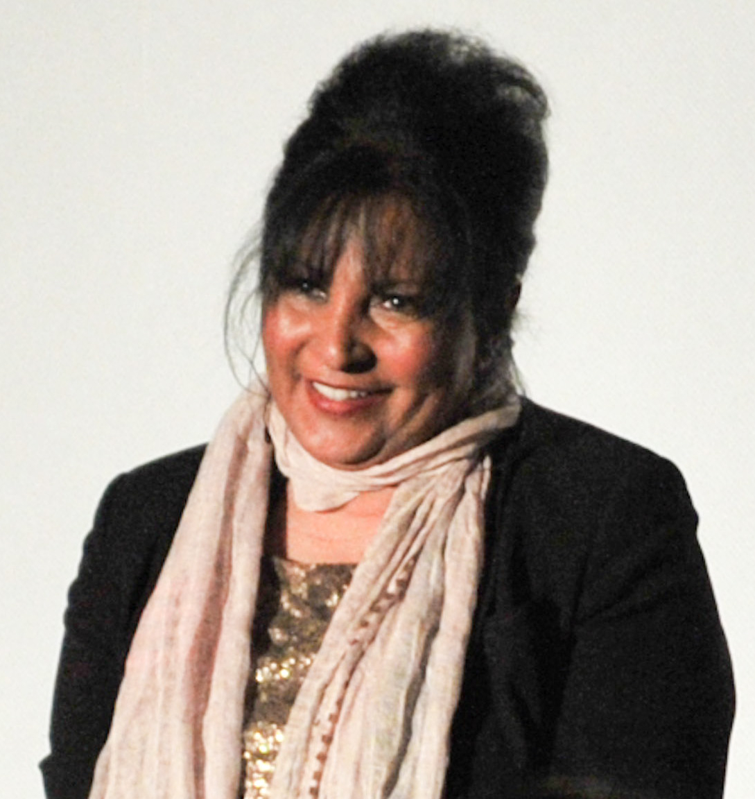 A standing ovation for our special guest at the end of "An Evening with Pam Grier"!